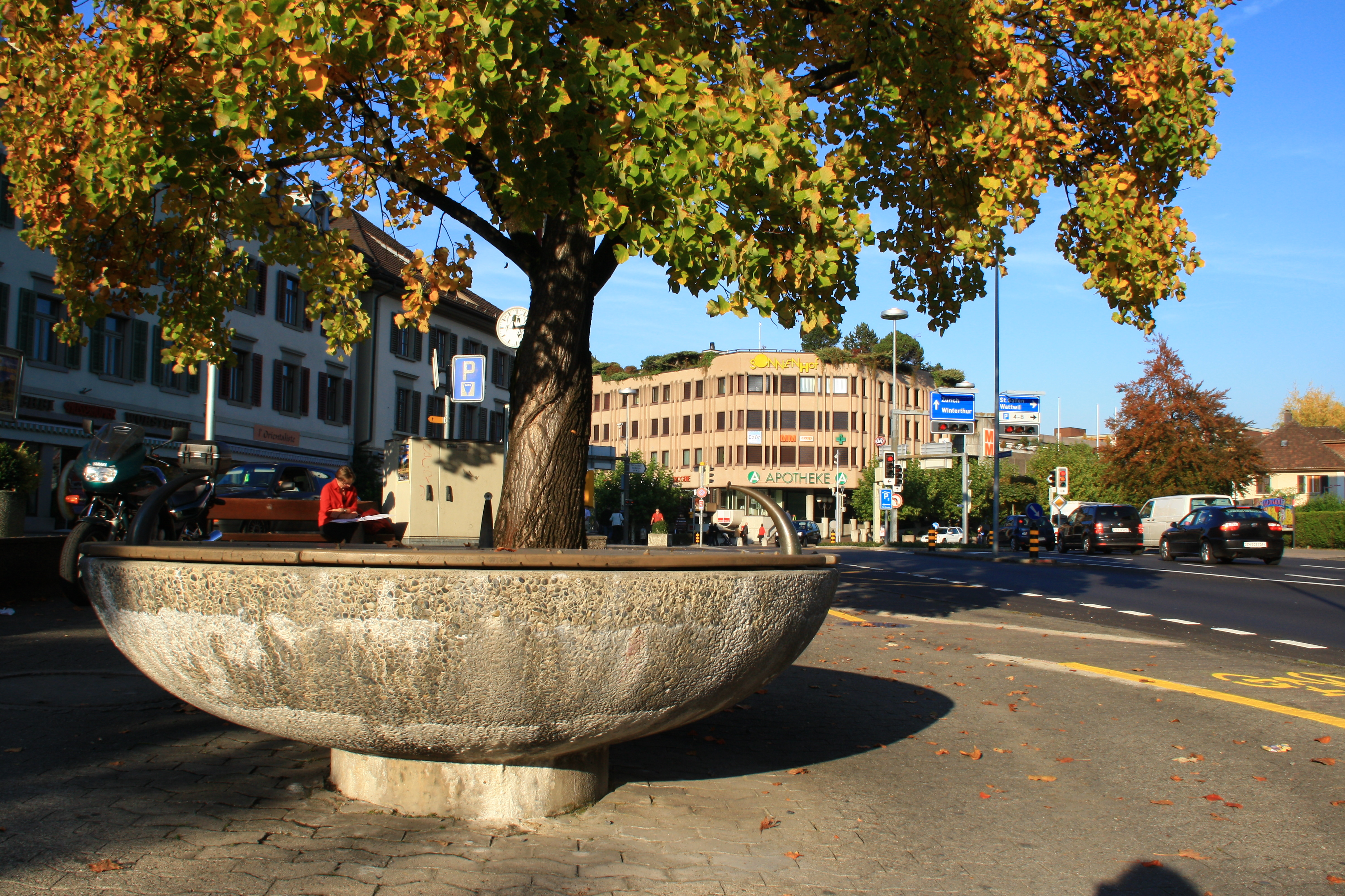 Stadthofplatz in Rapperswil (Switzerland), Sonnenhof shopping center in the background, Obere Bahnhofstrasse to the right.